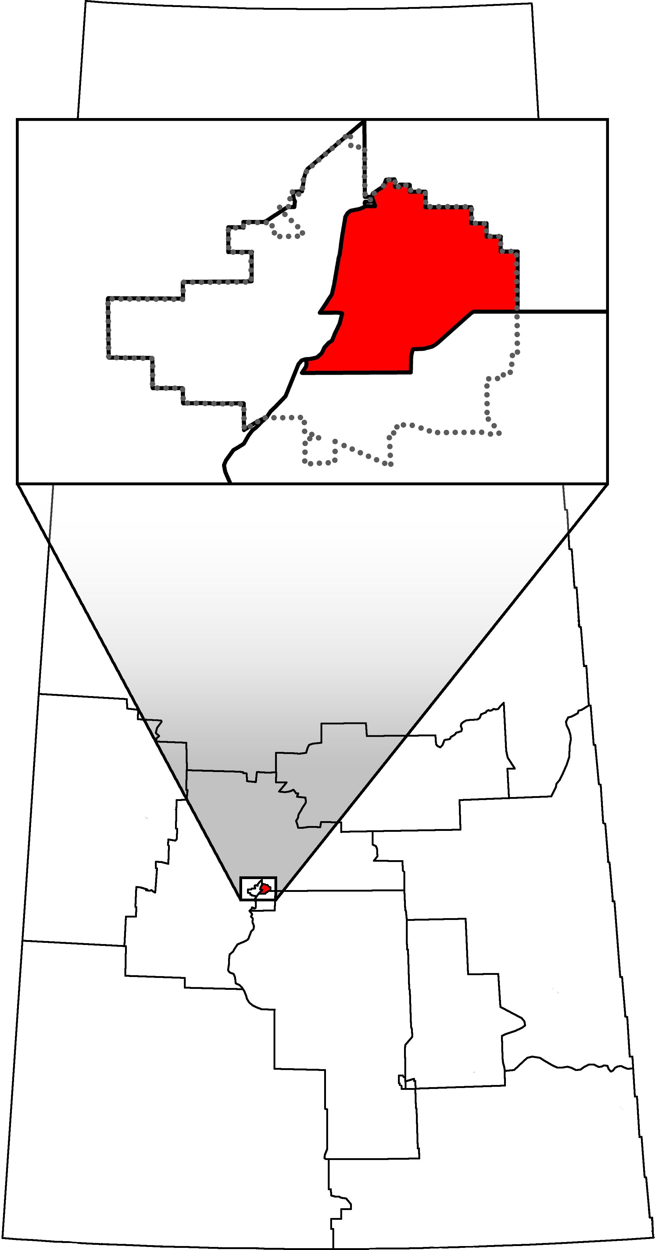 Saskatoon-University in relation to other Saskatchewan federal electoral districts as of the 2013 Representation Order. Dotted line shows Saskatoon city limits.